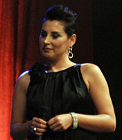 Cropped version picture of Funda Arar and Gunes Yakartepe